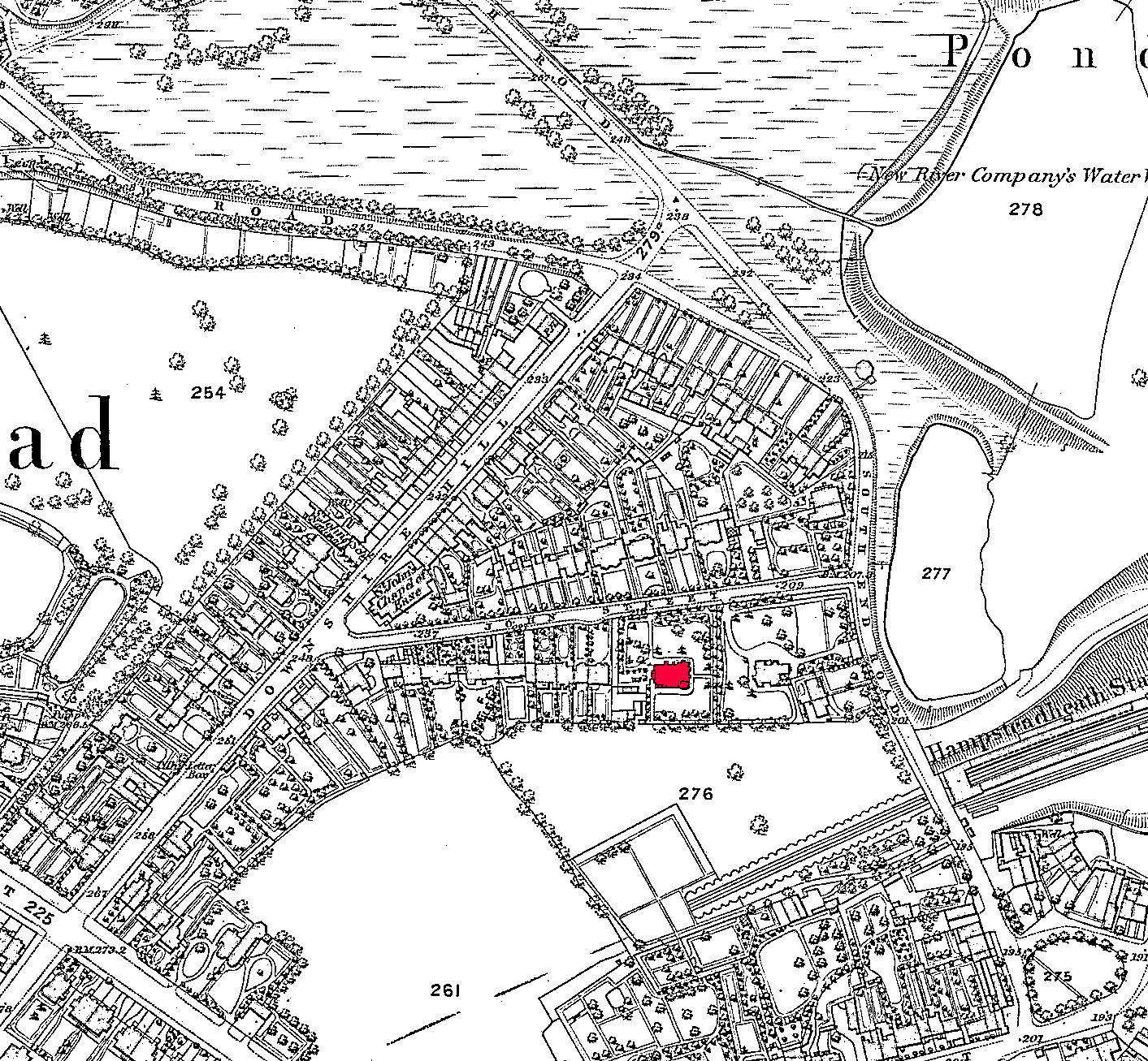 Author. OS. PD due to crown copyright expiring after 50 years. Extract from OS map for London dated 1866 with Keats house shown in red on John Street, Hampstead, North London, now known as Keats Grove